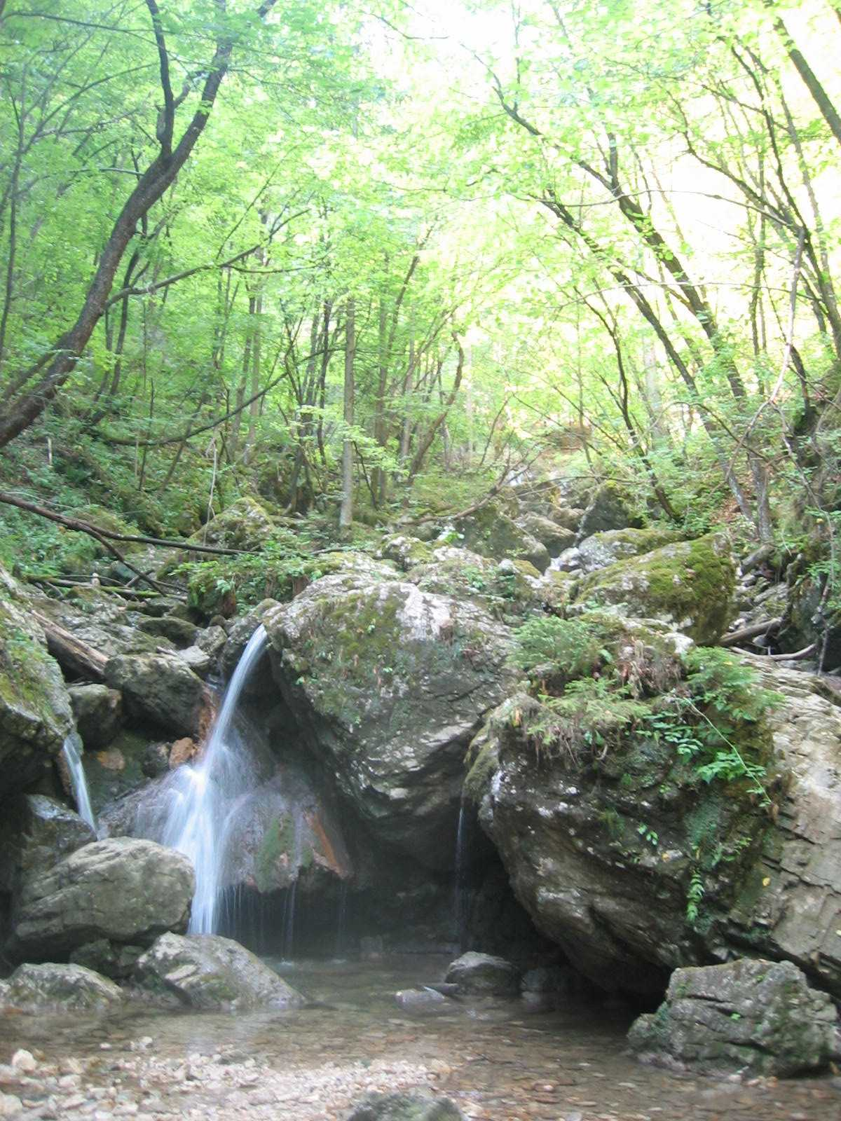 Pekel «(Hell)» - near Borovnica, at the edge of Ljubljana valley. photo:Ziga 11:13, 29 July 2006 (UTC)